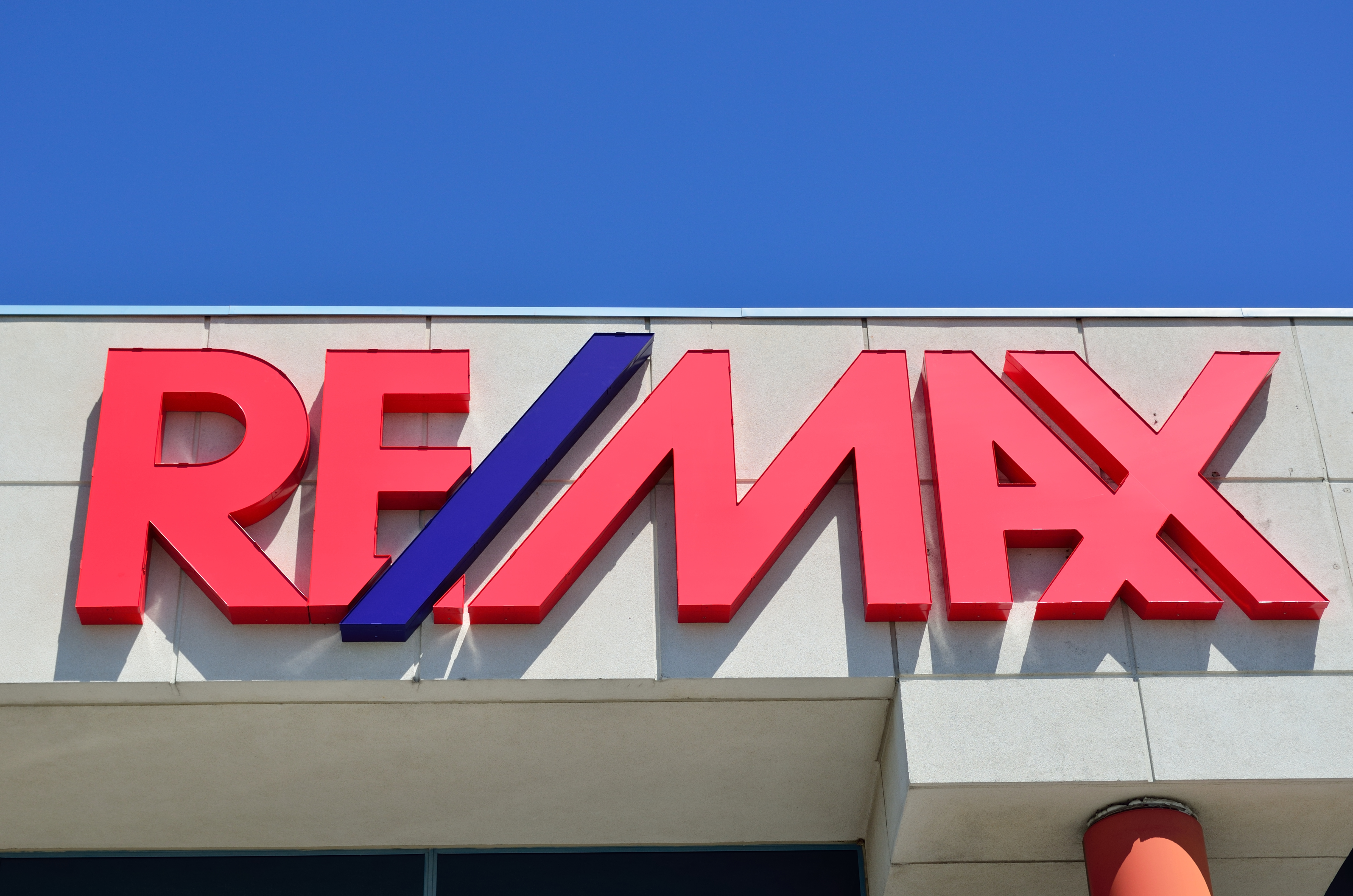 A REMAX office in Ontario